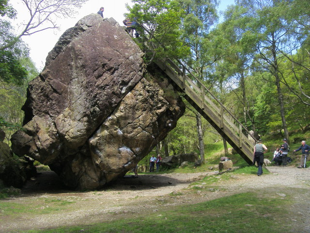 Bowder Stone Bowder Stone with viewing steps to the top